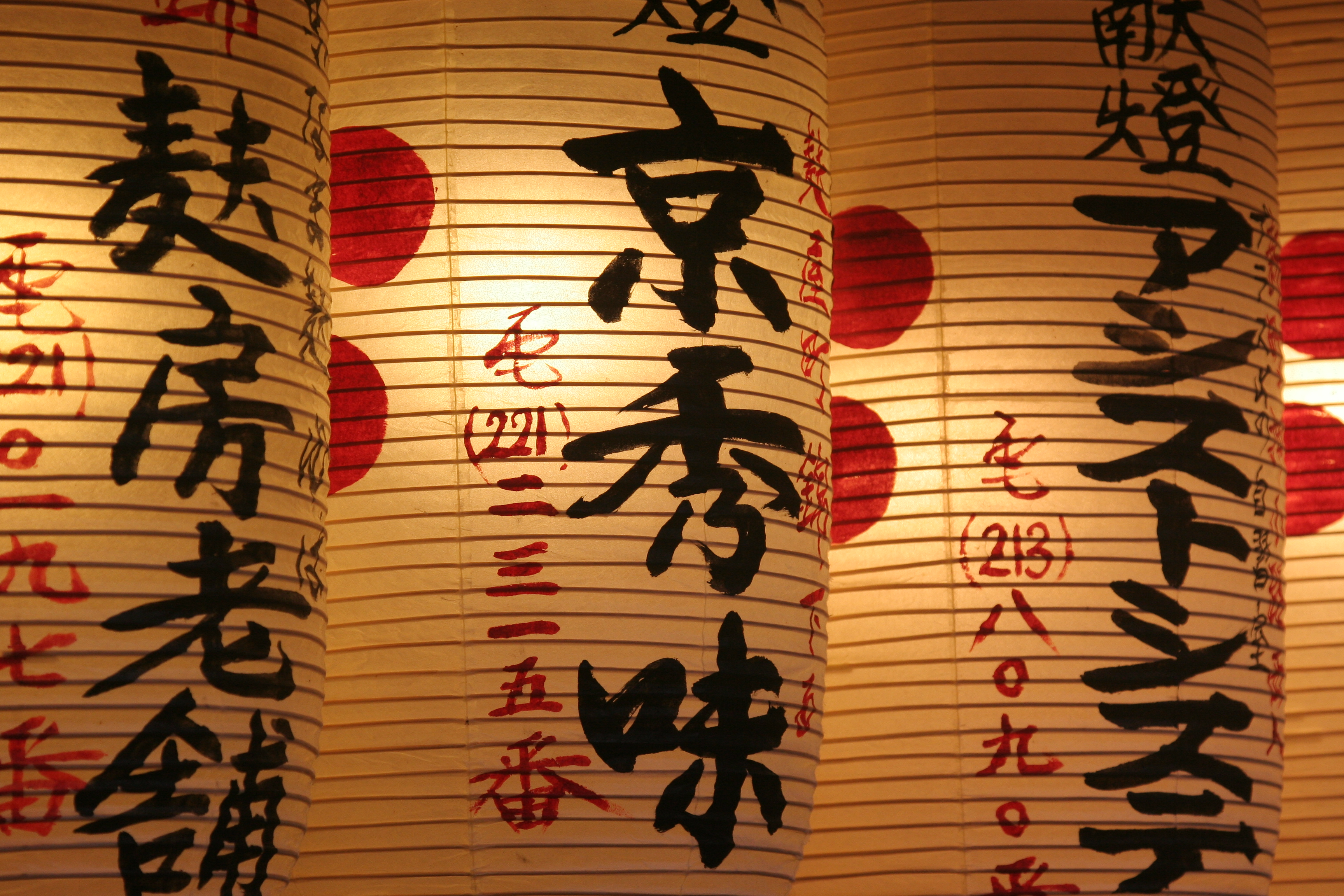 Japanese lanterns (photographed in Tokyo)